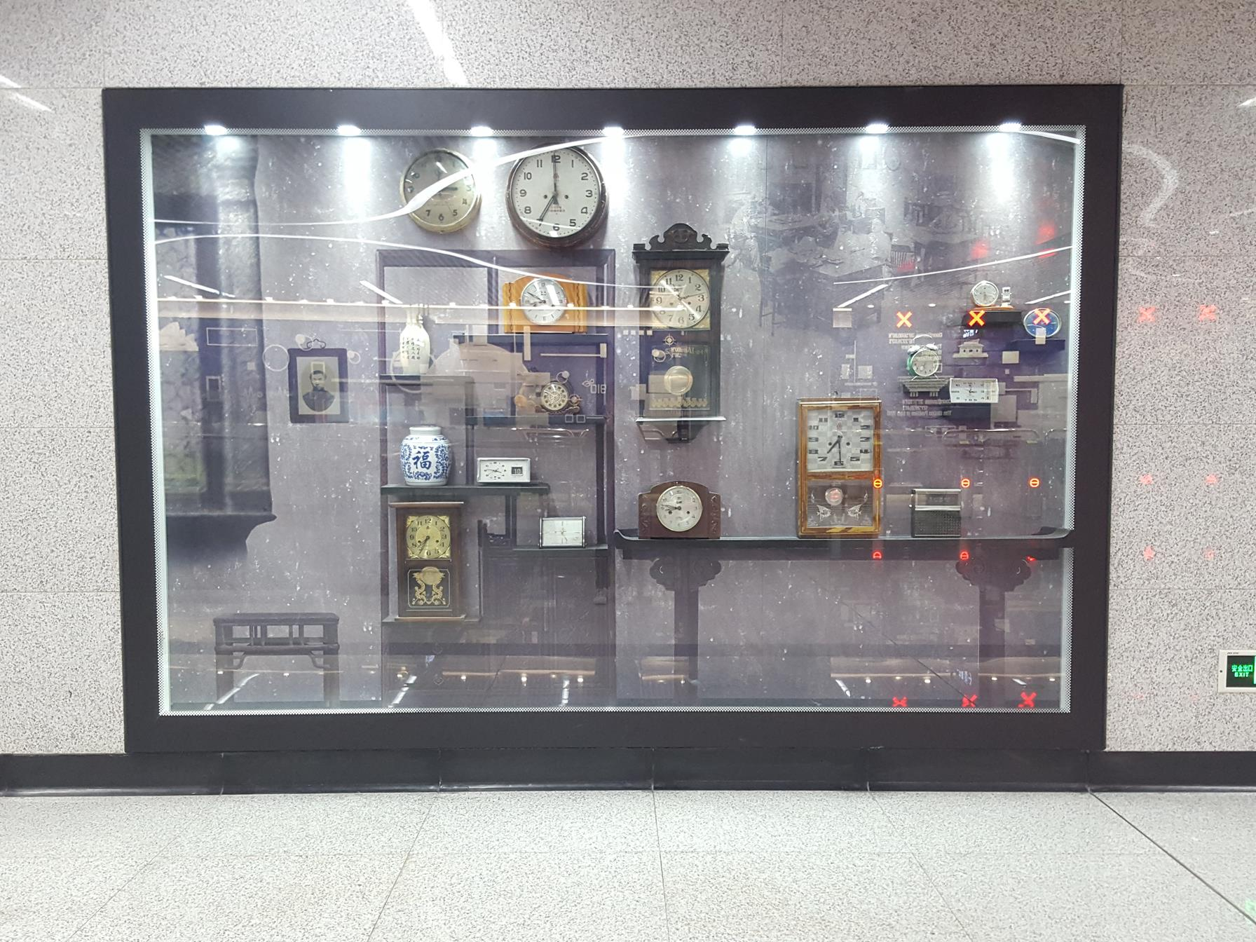 Art Wall in South International Expo Centre Station, Wuhan Metro